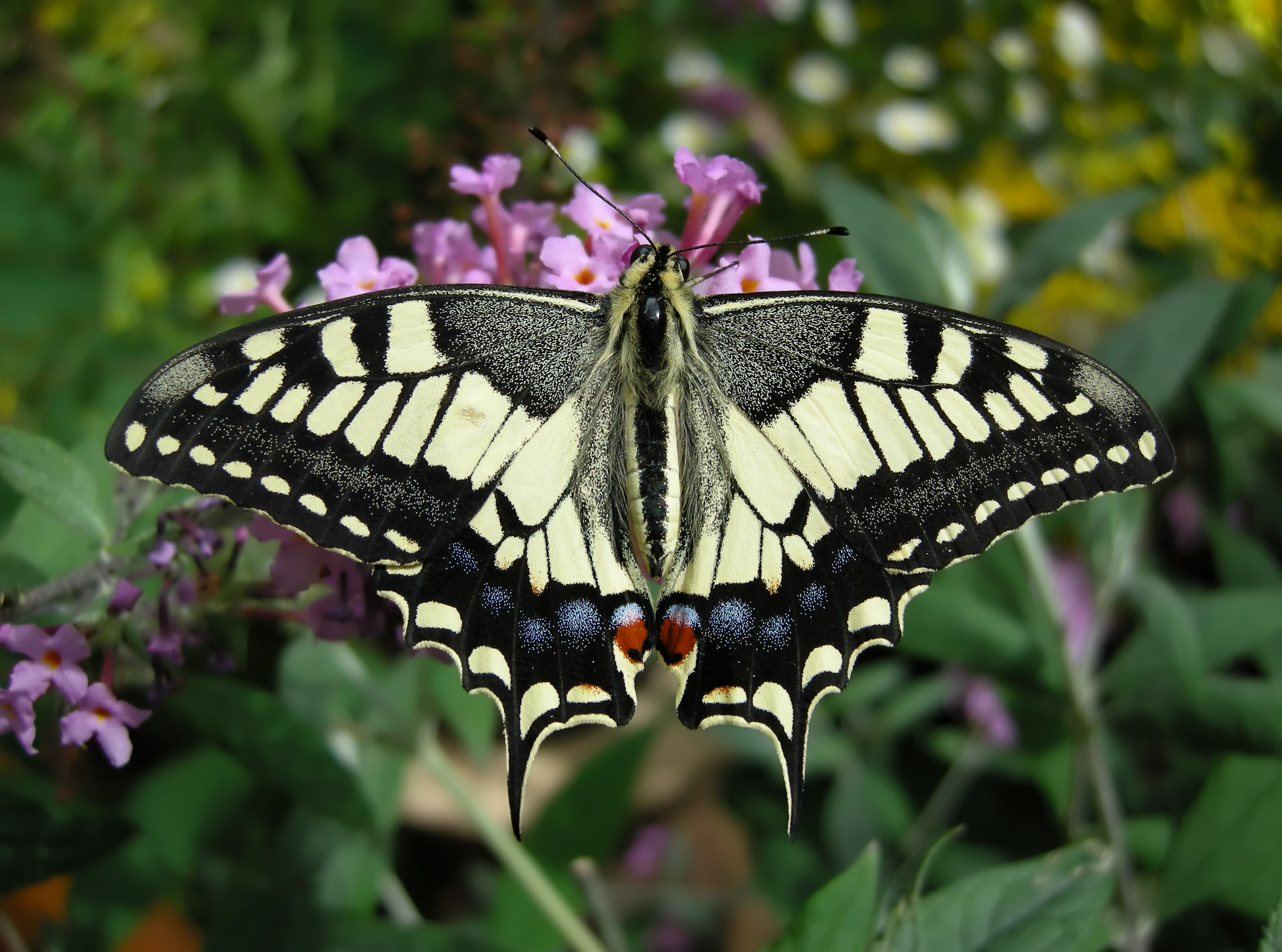 Old World Swallowtail on Buddleja davidii